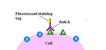 Diagram, created 14th September 2005, by Viki Male, to illustrate direct immunohistochemical staining.